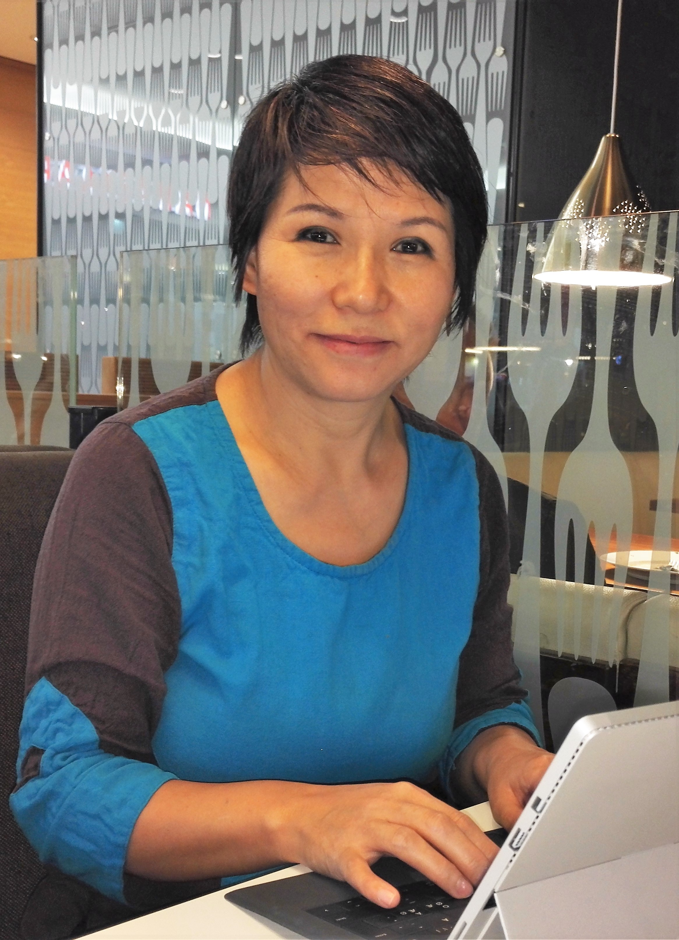 Portrait of the author / poeist TaoLin